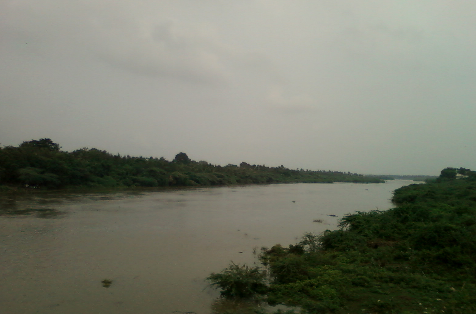 River gostani at gudivada, Vizianagaram district